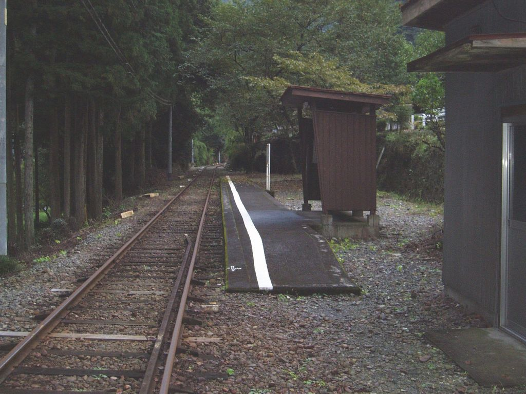 Domoto Sta.